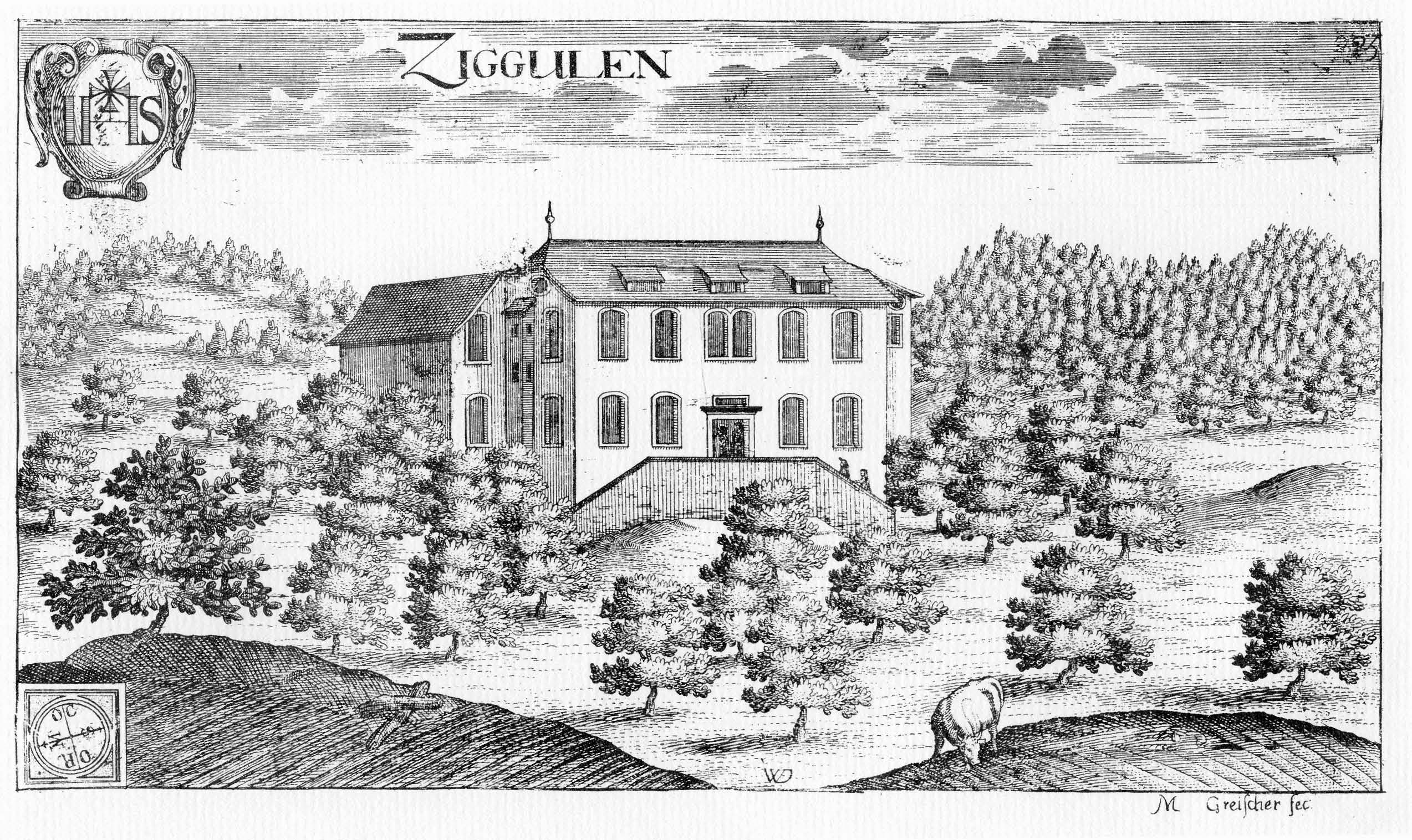 Castle of Zigguln in the Carinthian capital of Klagenfurt in Carinthia / Austria / European Union.